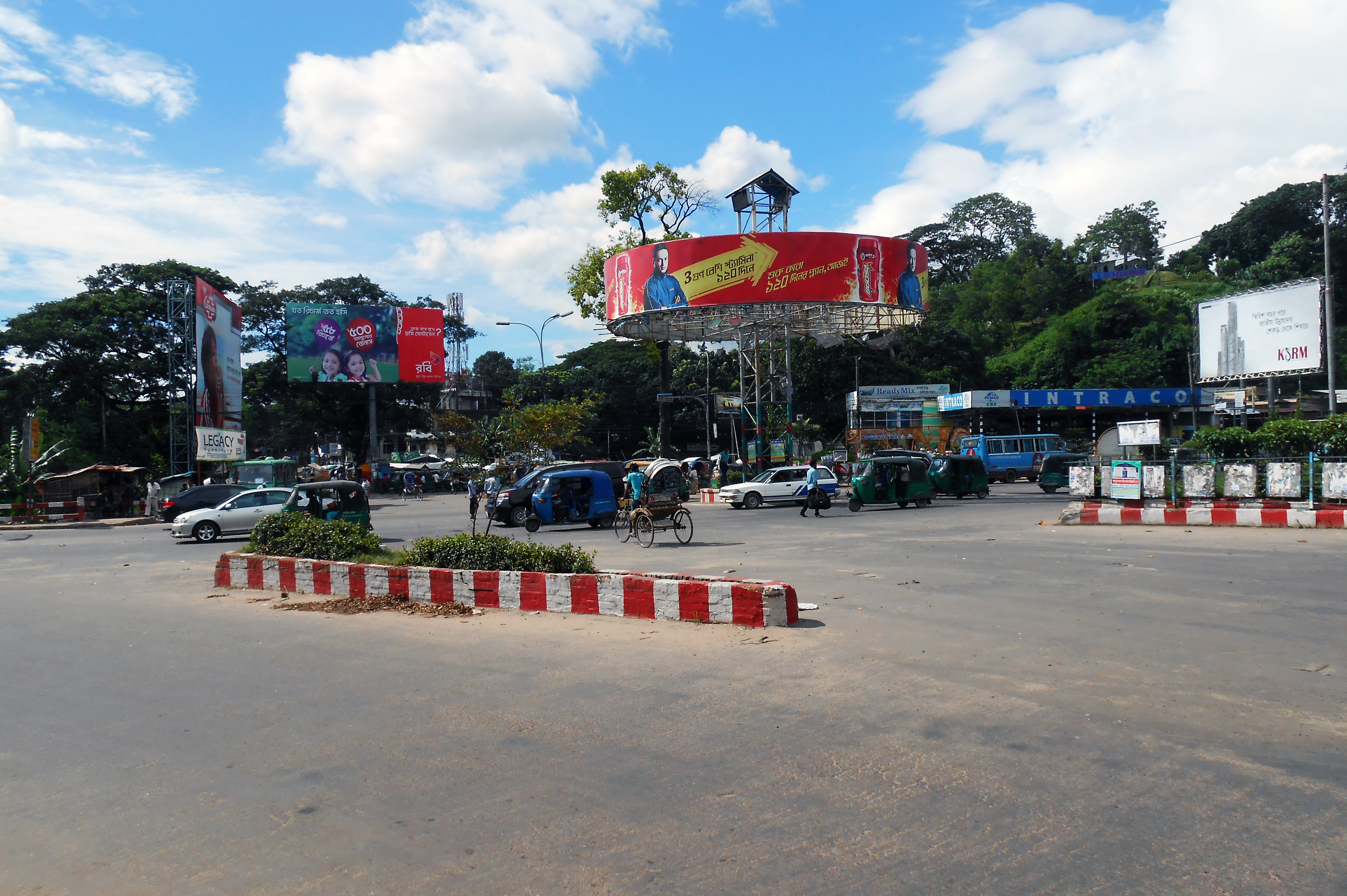 Mohammad Yusuf Chowdhury Road, Tigerpass, Chittagong